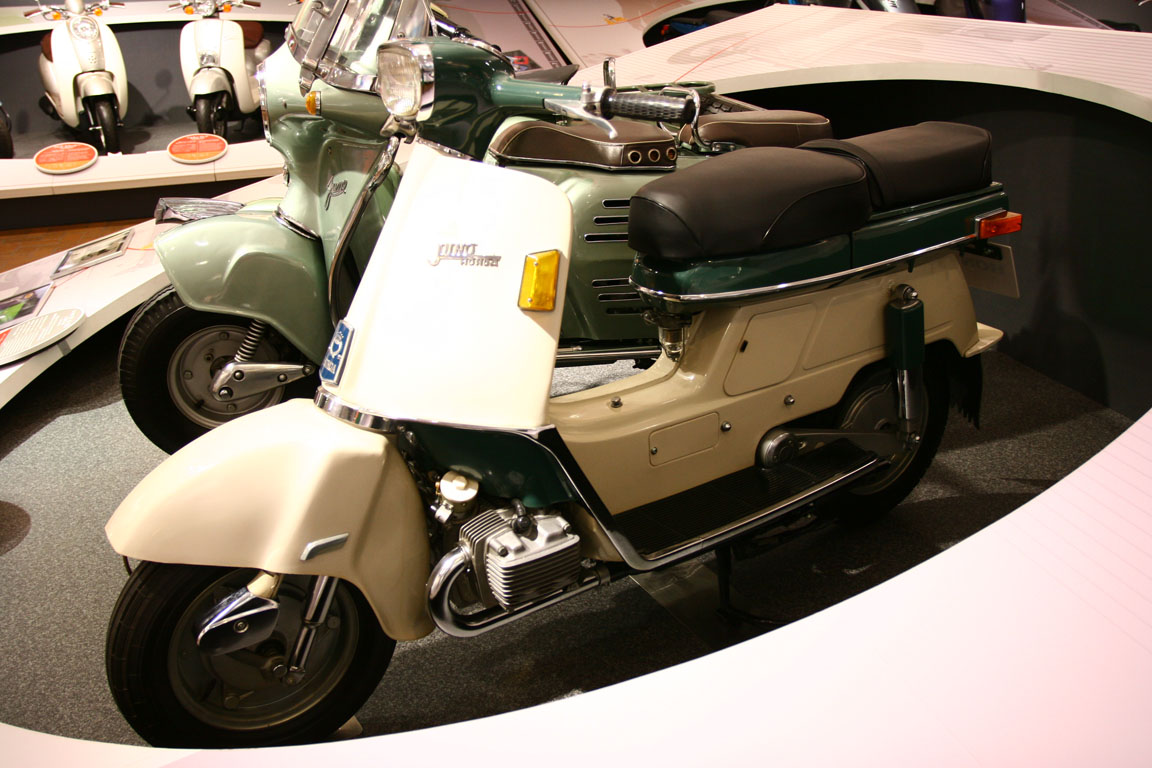 HONDA JUNO M85 photographed in Honda Collection Hall.